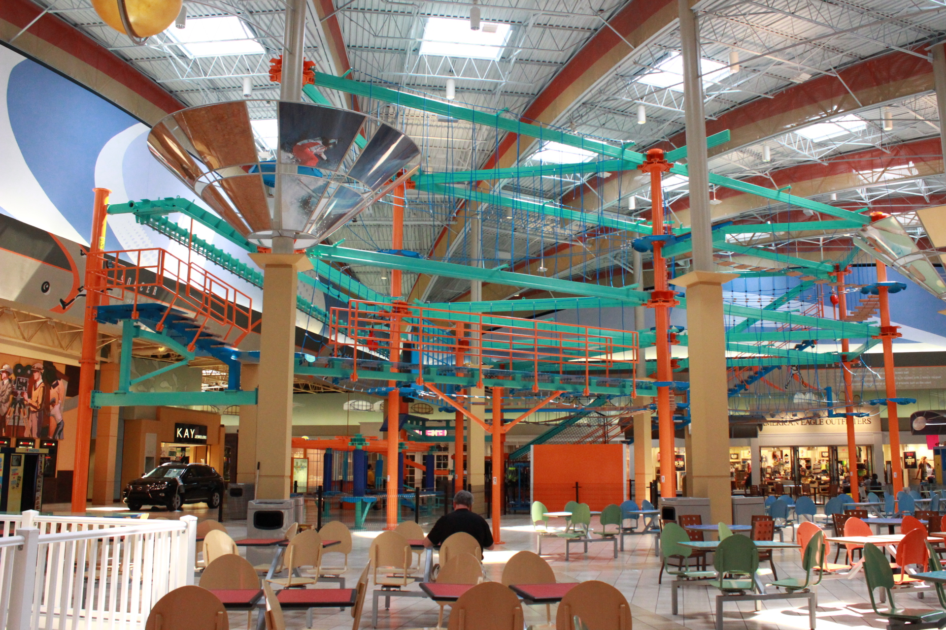 Sky Trail installed in the beginning of April 2015, seen finished.